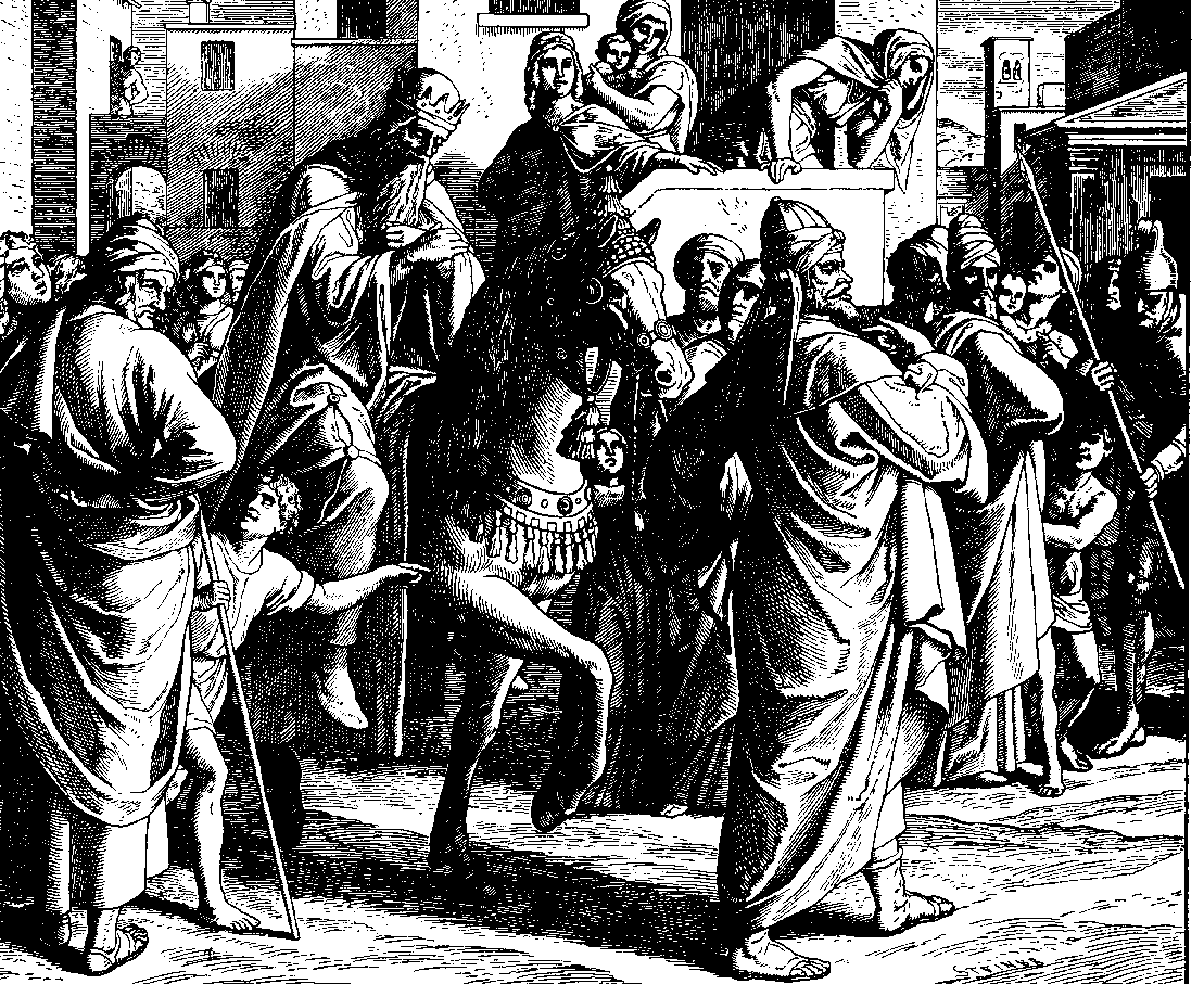 Woodcut for "Die Bibel in Bildern", 1860.